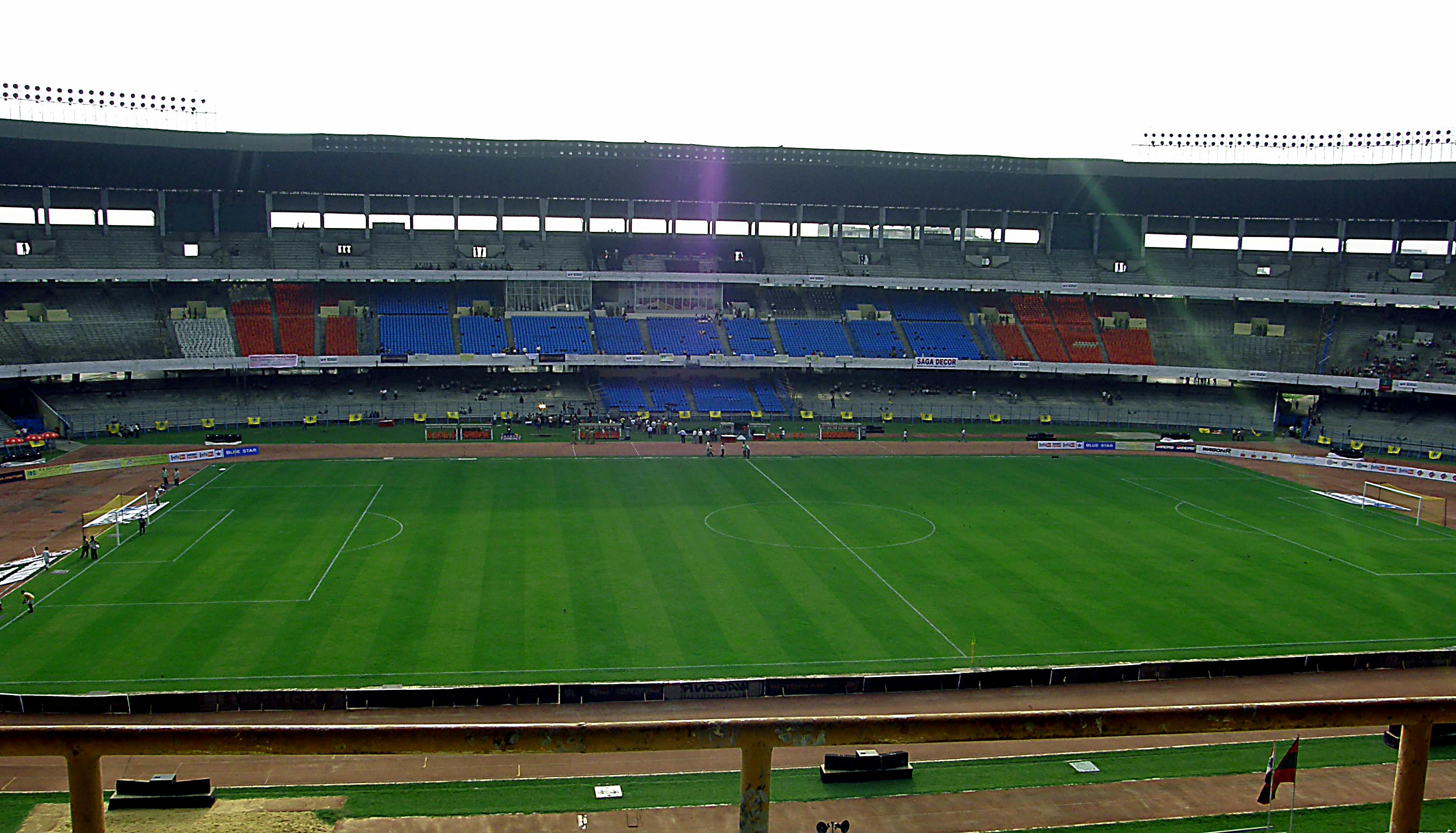 Picture of Salt Lake Stadium - Yuva Bharati Krirangan , Kolkata ( Calcutta ). Picture was taken on afternoon of 27th May, 2008. Just before the Bayern Munich vs. Mohun Bagan Football Match. It is known as the farewell match of German Goal Keeper Oliver Kahn